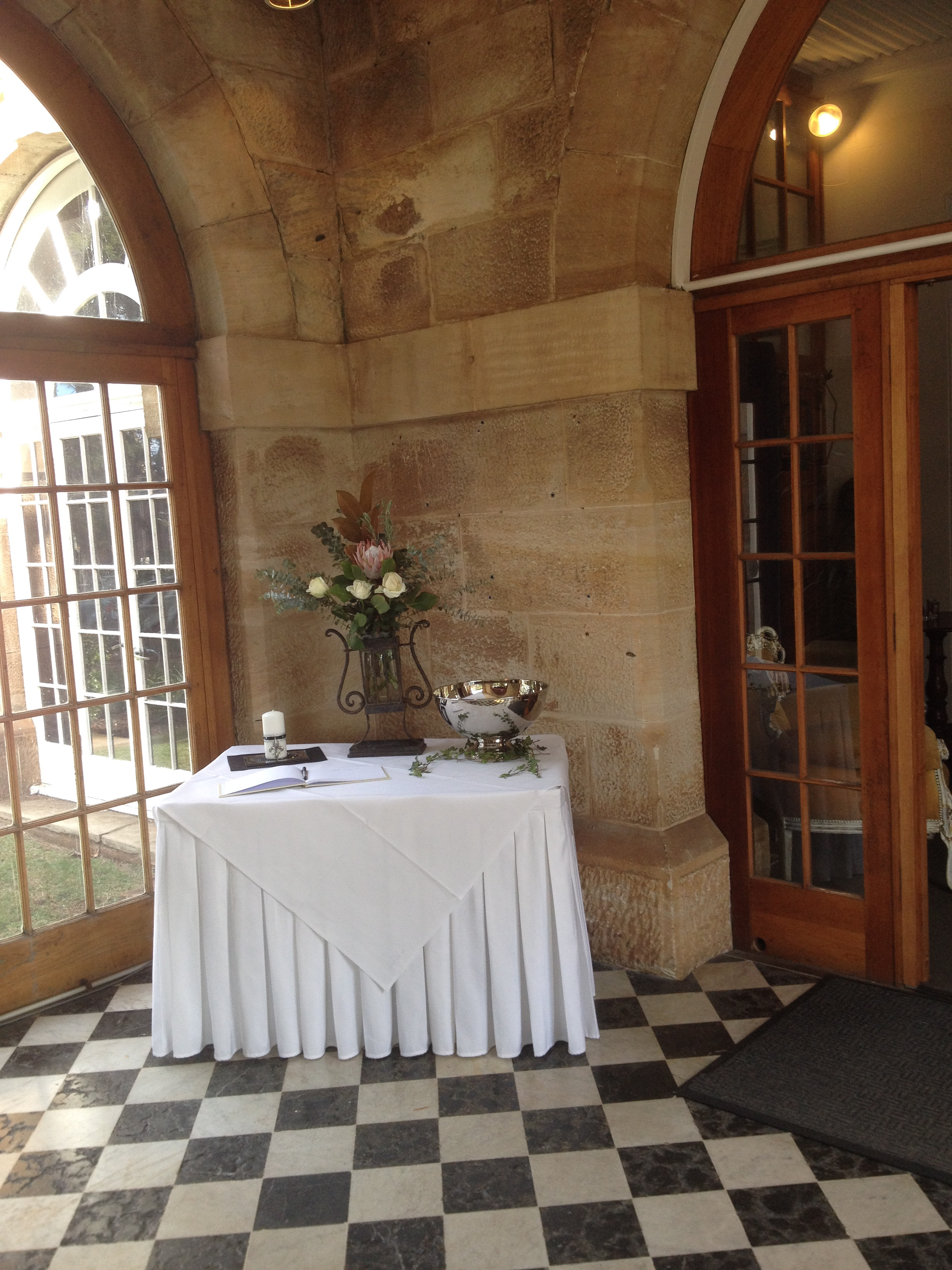 Clifford House, Toowoomba at 120 Russell Street